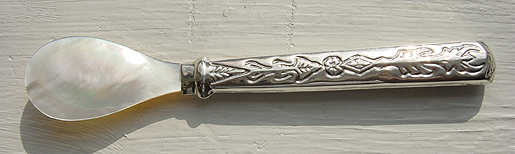 Mother of pearl caviar spoon 5.5 inches long with silver engraved handle. Manufactured by Jordanas Mother of Pearl.